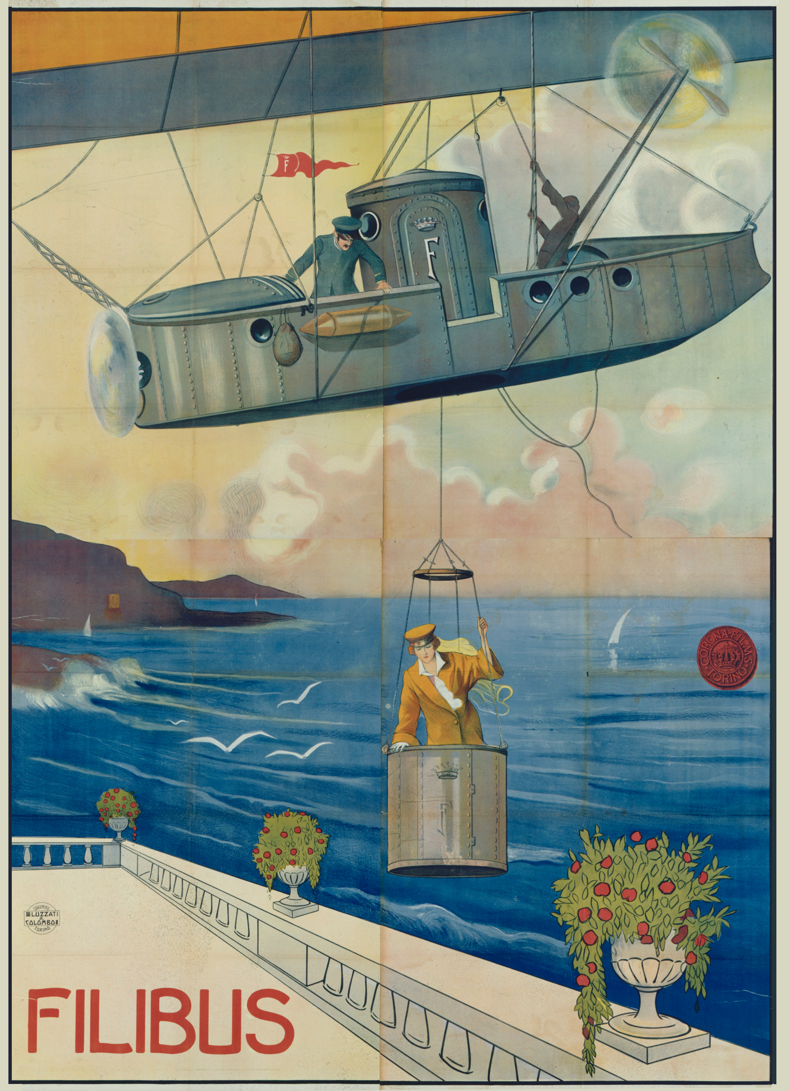 Poster for the 1915 film Filibus (Corona Films, Italy).